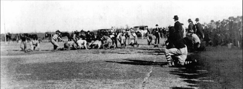 OU versus Arkansas City (Kansas) Town Team in 1899.